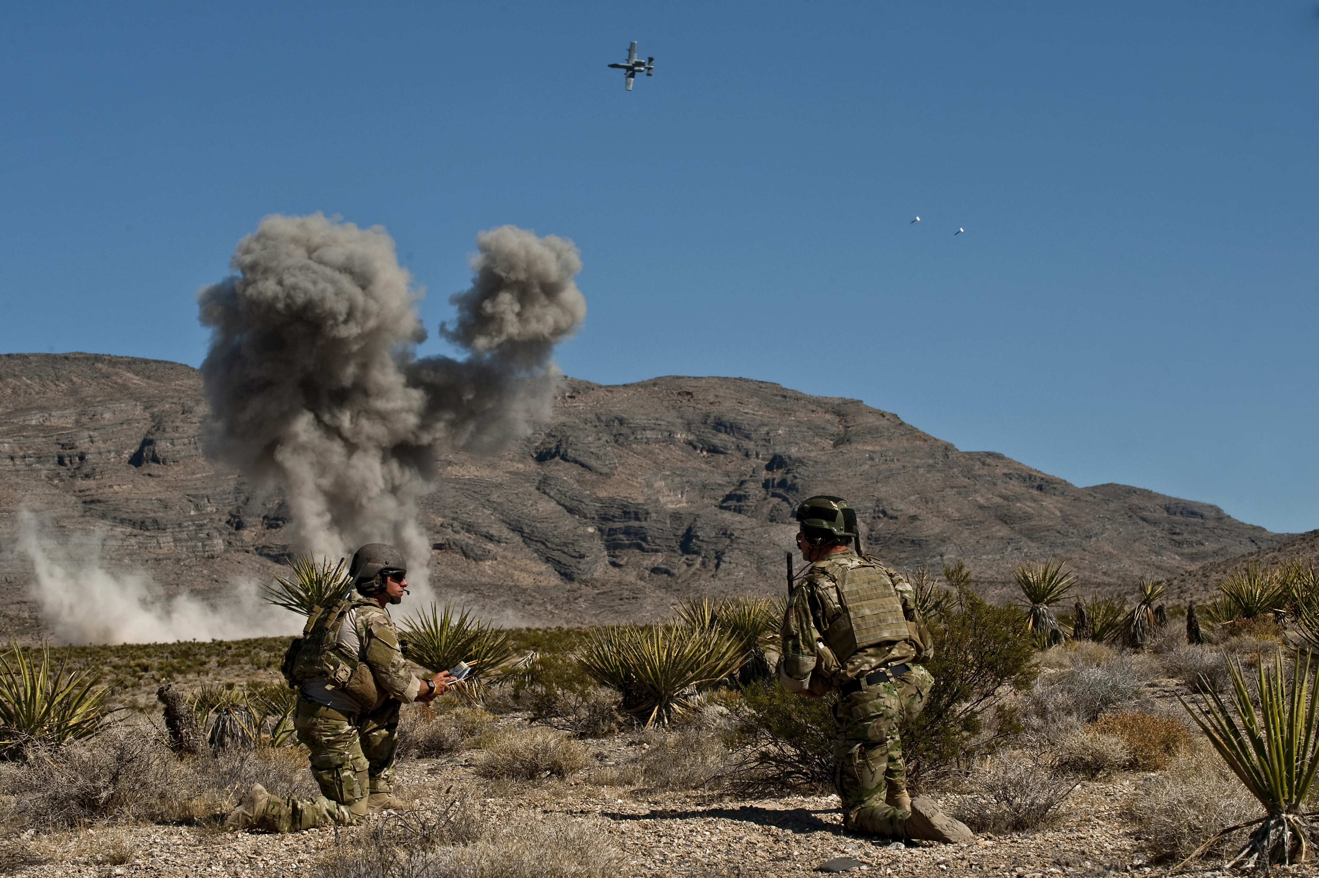 U.S. Air Force Senior Airman Corban Caliguire and Tech. Sgt. Aaron Switzer, 21st Special Tactics Squadron joint terminal attack controllers (JTAC), call for an A-10 Thunderbolt II aircraft to do a show of force during a close air support training mission Sept. 23, 2011, at the Nevada Test and Training Range, Nev. JTACs performed proficiency training with U.S. Air Force Weapons School students during the close air support phases of the Weapons School six-month, graduate-level instructor course. (DoD photo by Tech. Sgt. Michael R. Holzworth, U.S. Air Force/Released) see also File:21st STS JTACs CAS training mission at Nevada Test and Training Range.jpg